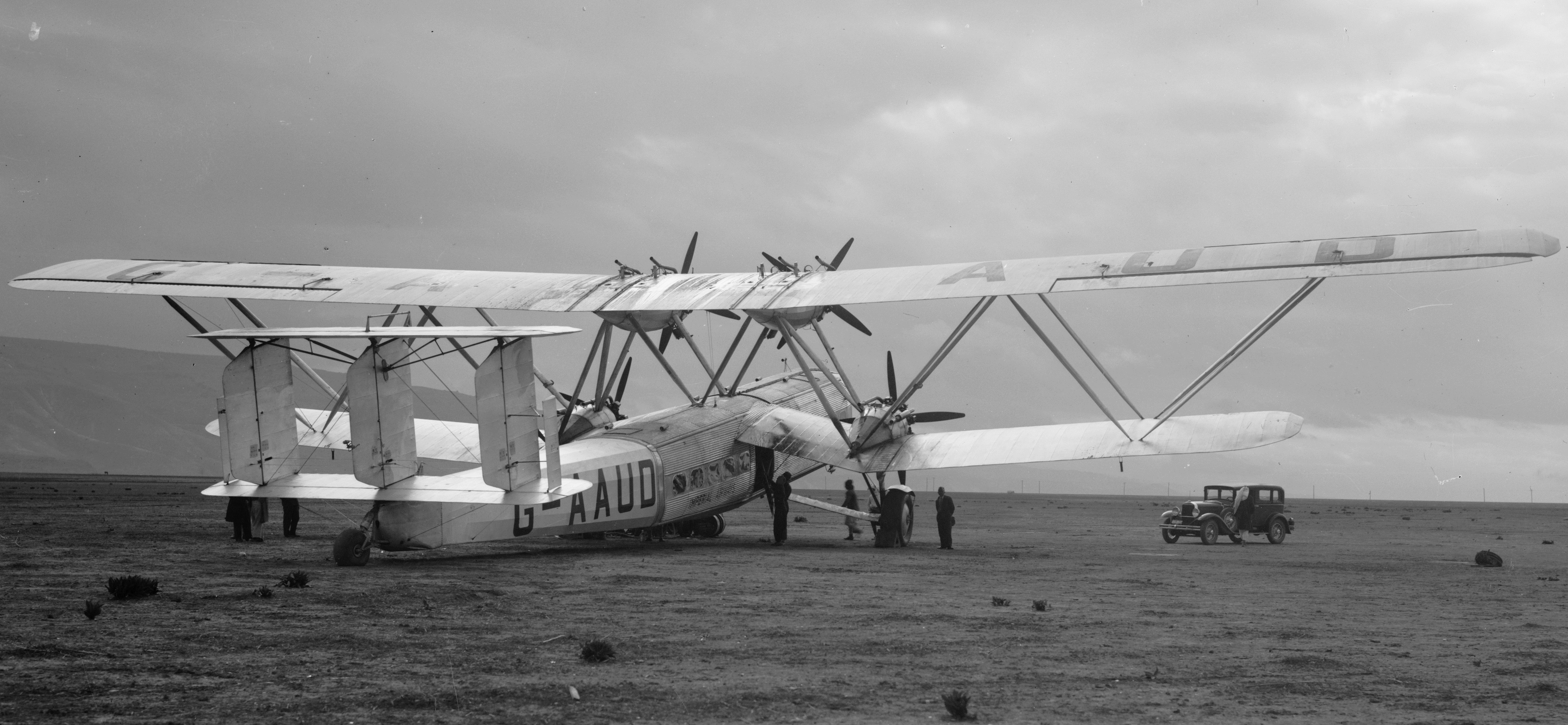 Handley Page H.P.42 G-AAUD Hanno, british four-engined long-range biplane airliner of the Imperial Airways,at Samakh, October 1931. Original information: TITLE: Air views of Palestine. Aircrafts etc. of the Imperial Airways Ltd., on the Sea of Galilee and at Semakh. Aircraft "Hanno" ready for take-off. Silver wings against dark clouds at Semakh. CALL NUMBER: LC-M32- 4241[P&P] REPRODUCTION NUMBER: LC-DIG-matpc-03064 (digital file from original photo) LC-M3201-4241 (b&w film copy negative) RIGHTS INFORMATION: No known restrictions on publication. MEDIUM: 1 negative : glass, dry plate ; 5 x 7 in. CREATED/PUBLISHED: [1931 Oct.] CREATOR:American Colony (Jerusalem). Photo Dept., photographer. NOTES: Title from: Catalogue of photographs & lantern slides ... [1936?]. Caption continues from catalog: Air route from the sea of Galiliee following the Jordan Valley down to the Dead Sea, Jericho, etc. On negative: 40. Date from Matson LOT cards. Gift; Episcopal Home; 1978. SUBJECTS:Biplanes. Israel--Tsemaḥ. FORMAT: Dry plate negatives. PART OF: G. Eric and Edith Matson Photograph Collection REPOSITORY: Library of Congress Prints and Photographs Division Washington, D.C. 20540 USA DIGITAL ID:(digital file from original photo) matpc 03064 CONTROL #: mpc2004004997/PP